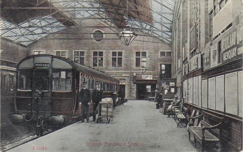 Great Western Railway steam rail motor 45 at Penzance.